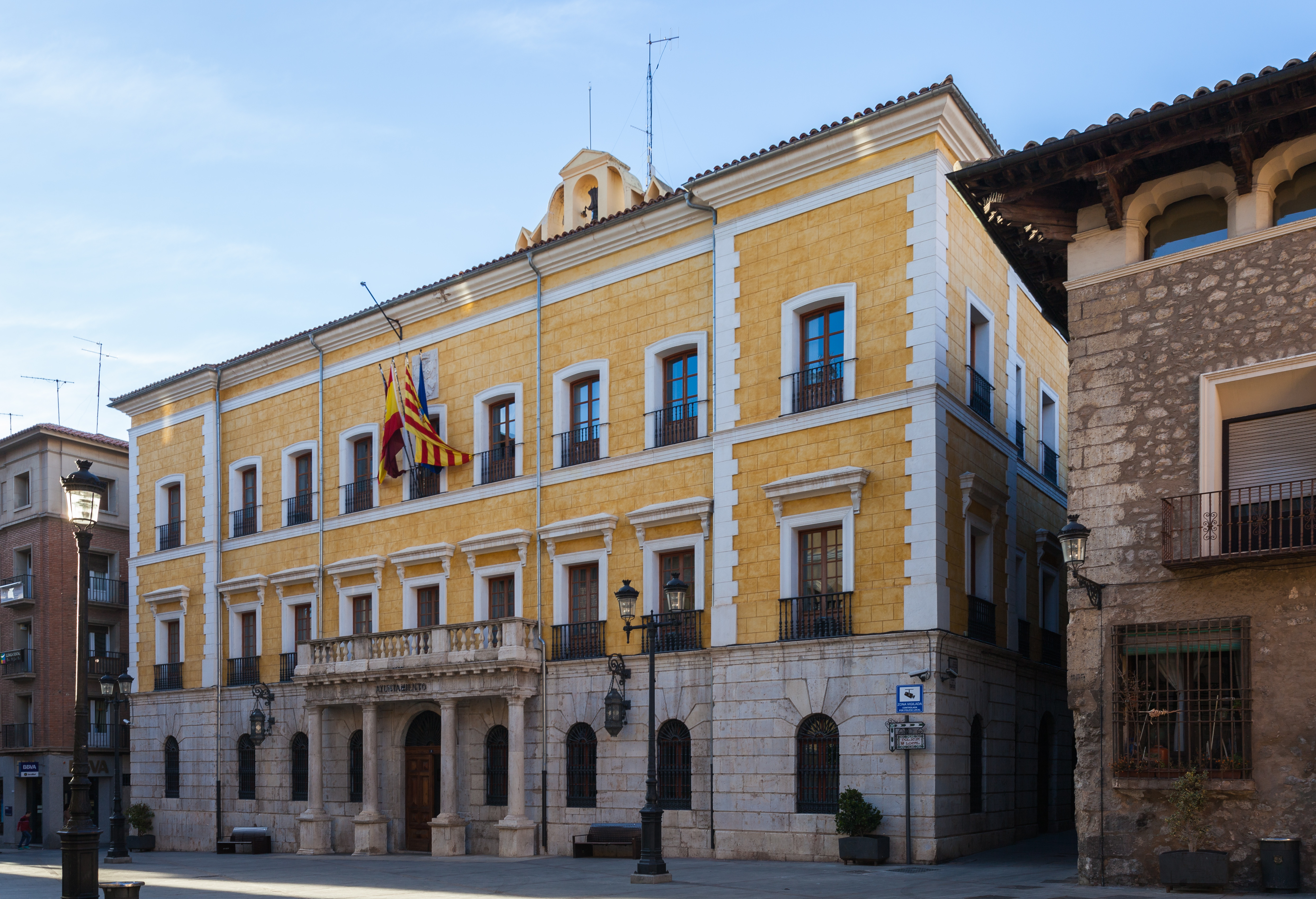 Town hall, Teruel, España